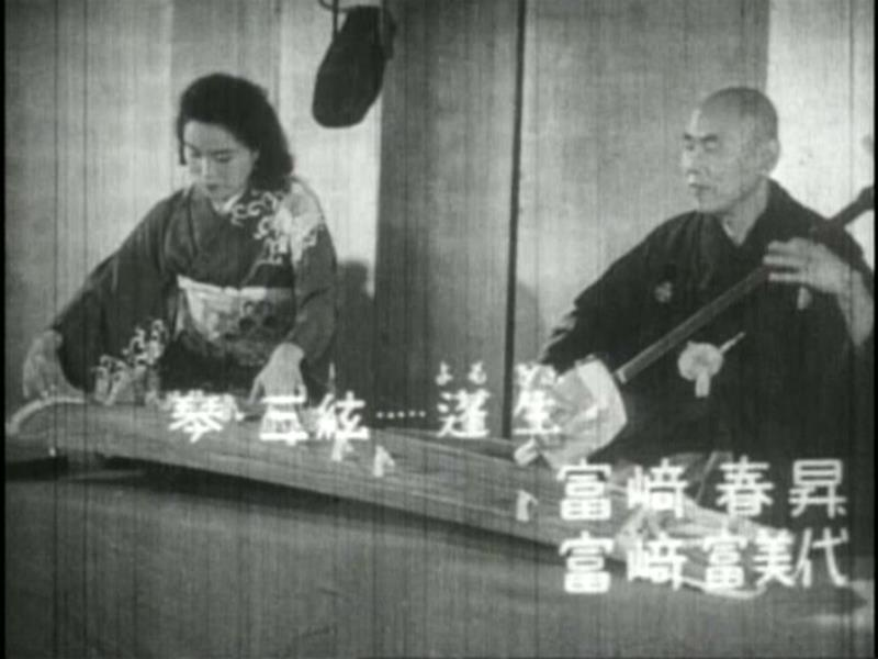 Shunsho Tomisaki (light. Jiuta Shamisen Player), 1948.